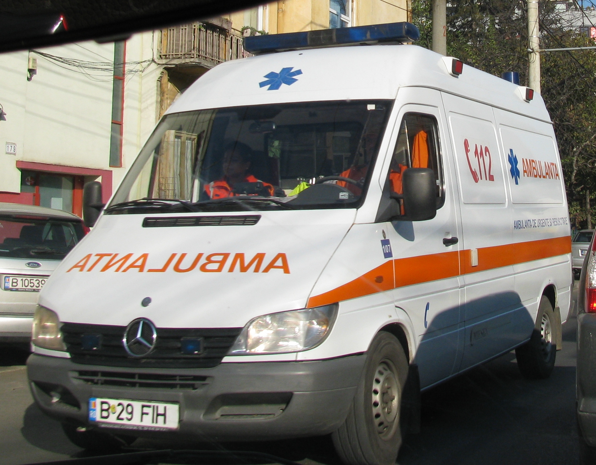 A Romanian Ambulance on the street in Bucharest, with "AMBULANTA" in mirror writing ("ATNALUBMA")